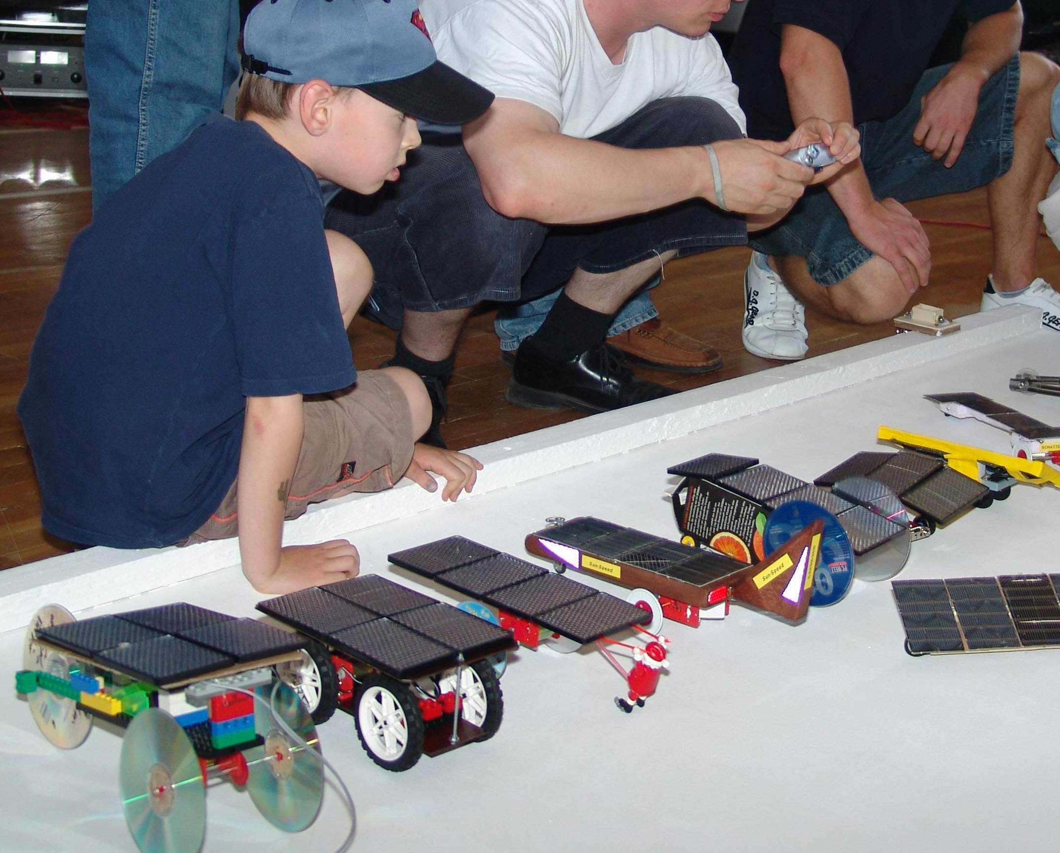 Solar car racing